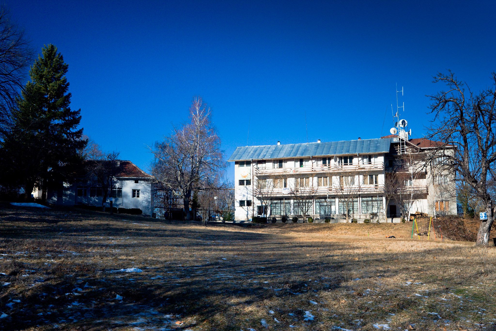 Belasitsa refuge in Belasitsa mountains, Bulgaria